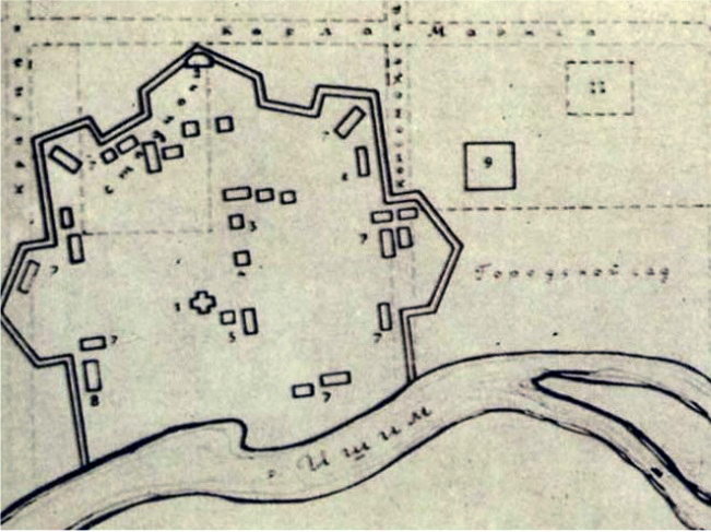 Akmolinsk Fortress Map.